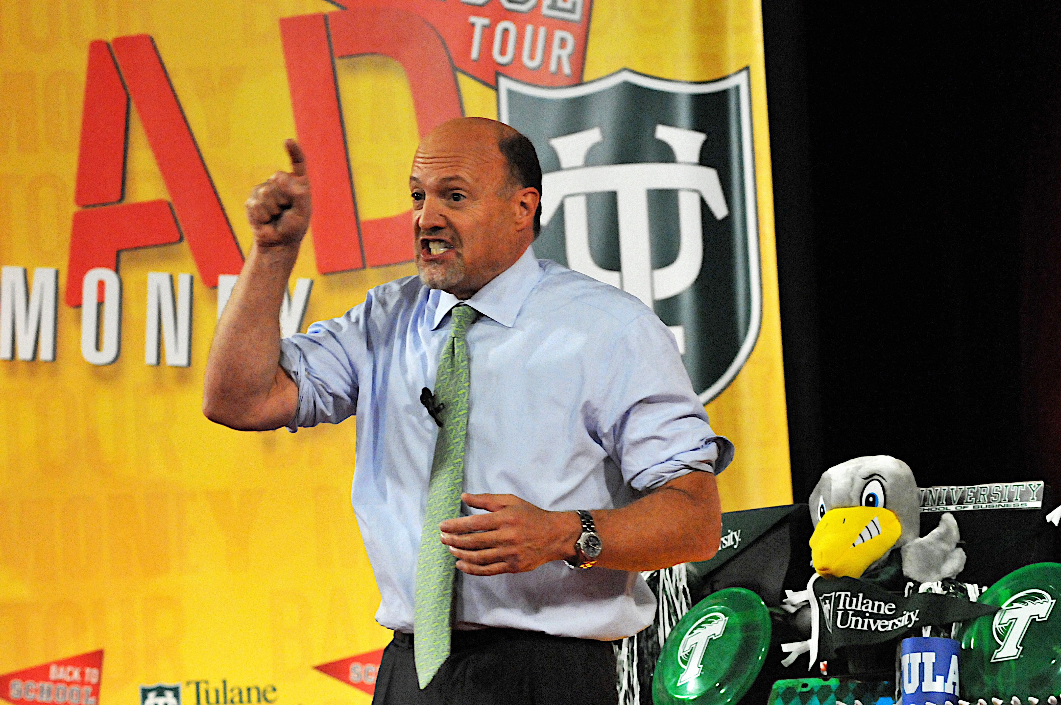 CNBC’s “Mad Money with Jim Cramer” came to Tulane University’s Freeman School of Business Oct. 19, 2010 to broadcast in front of a live audience as part of the show’s “Back to School Tour.”